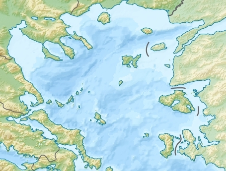 Location map of northern Aegean Equirectangular projection, N/S stretching 120 %